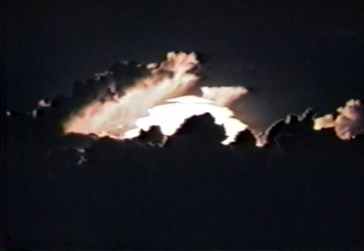 Termonuclear explosion Navajo, Operation Redwing